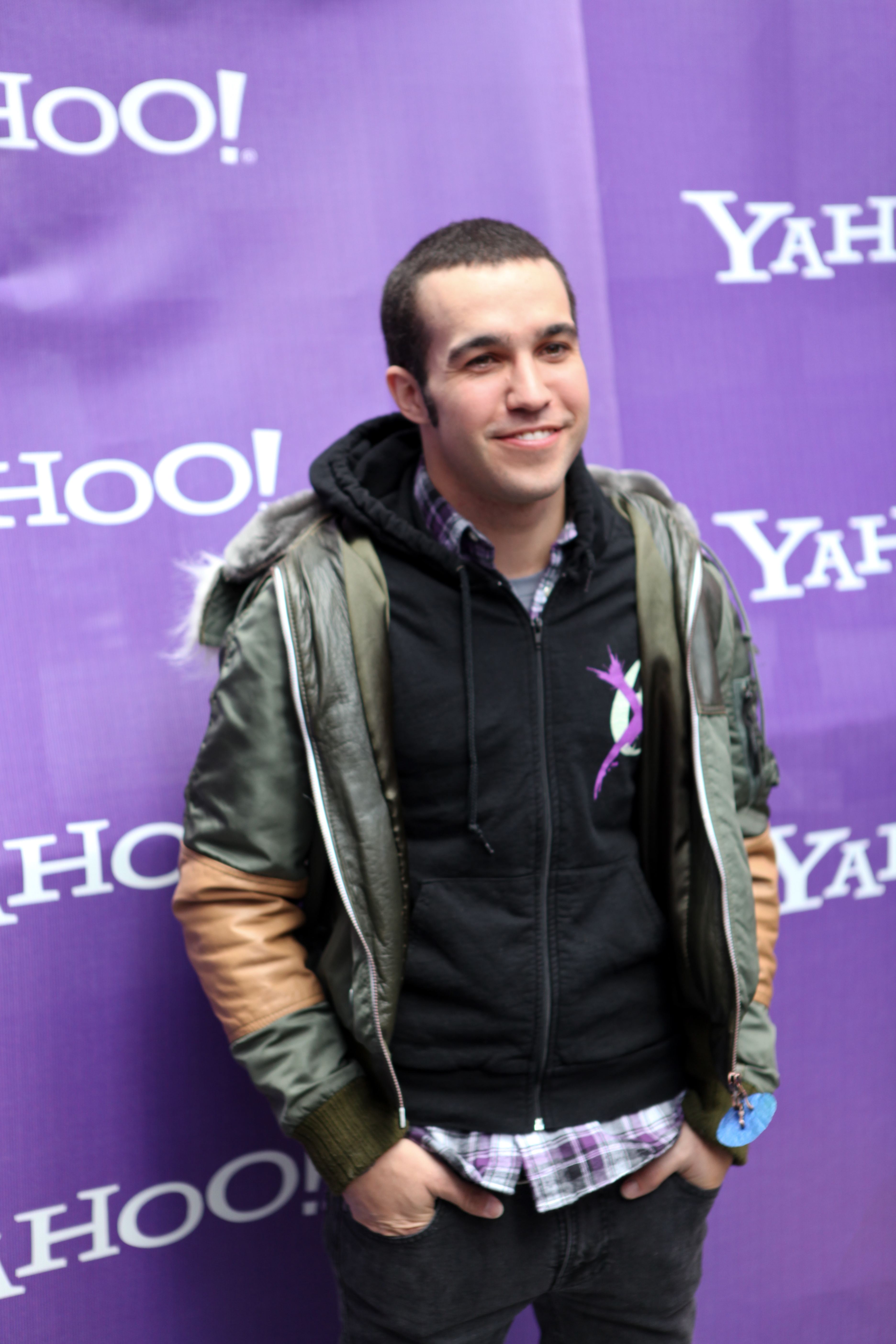 Pete Wentz at the Yahoo! Yodel Studio on October 13, 2009.